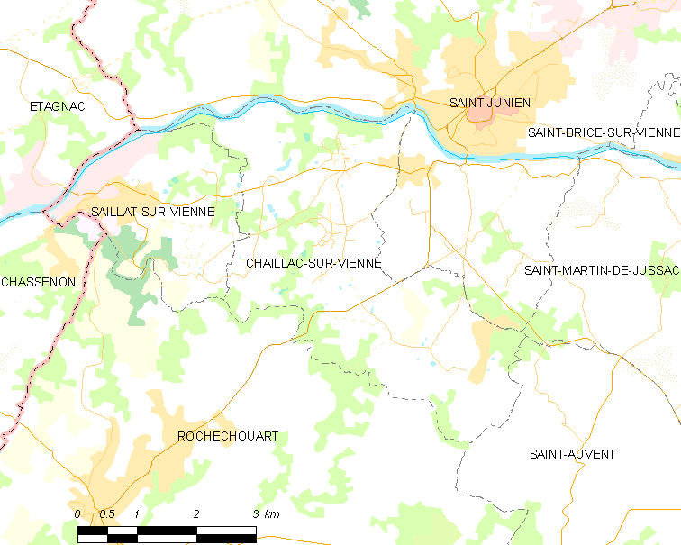 Map of French municipality Chaillac-sur-Vienne